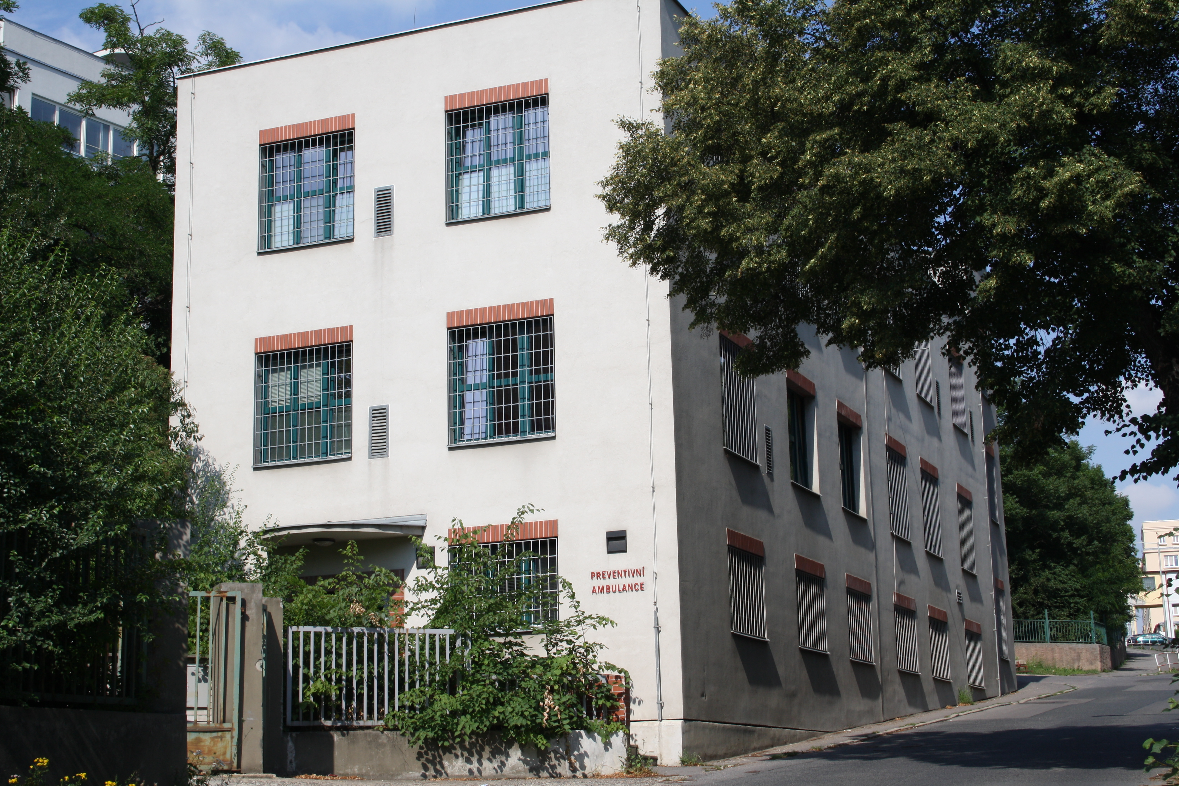 Prague Liben, Bulovka, sobering-up station